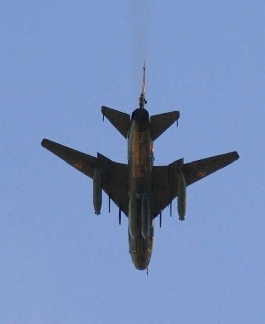 Su-22 in flight, near Gniezno, Poland.